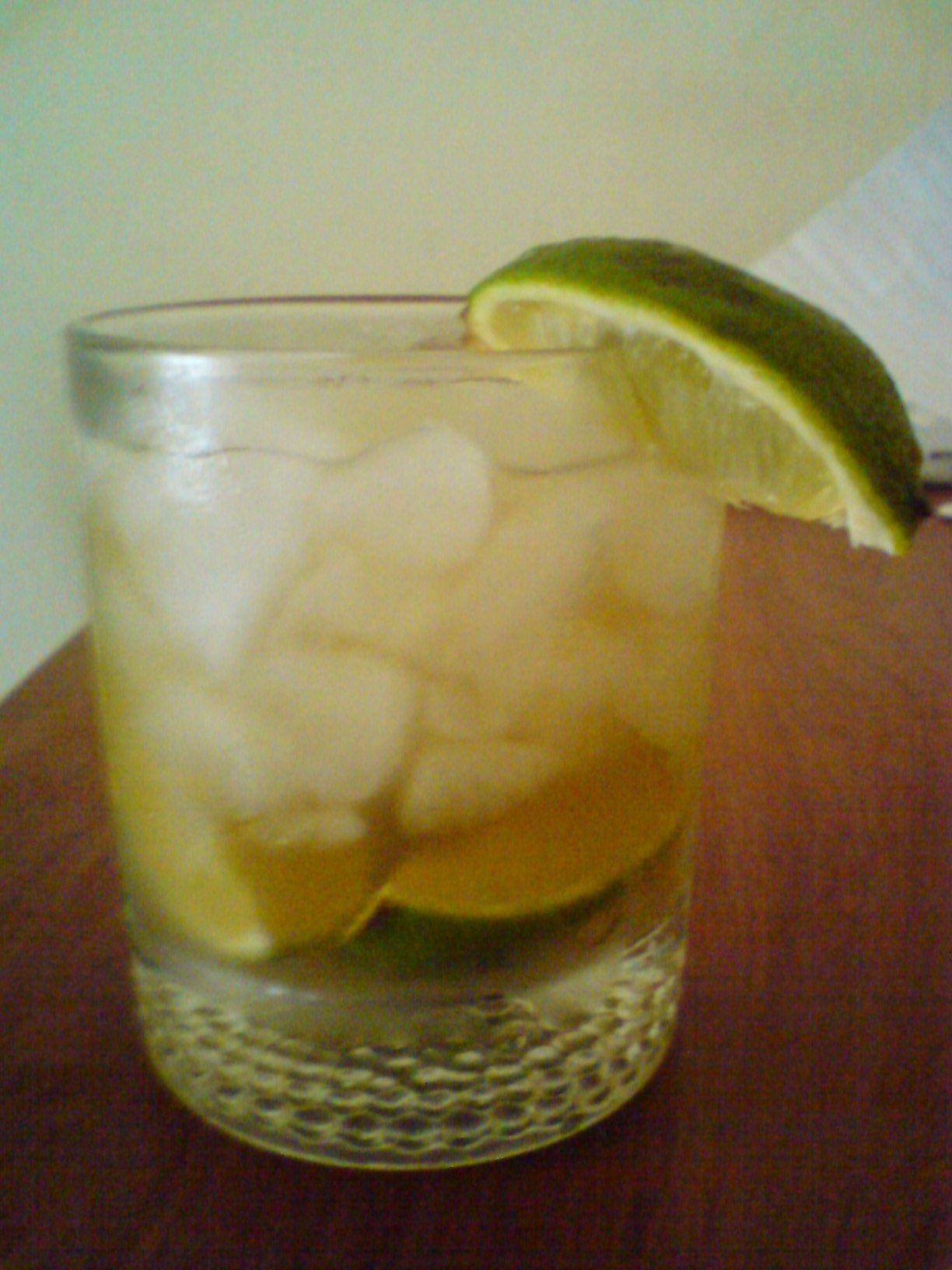 A Caipiroska cocktail.